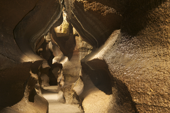 Unique passageway shapes